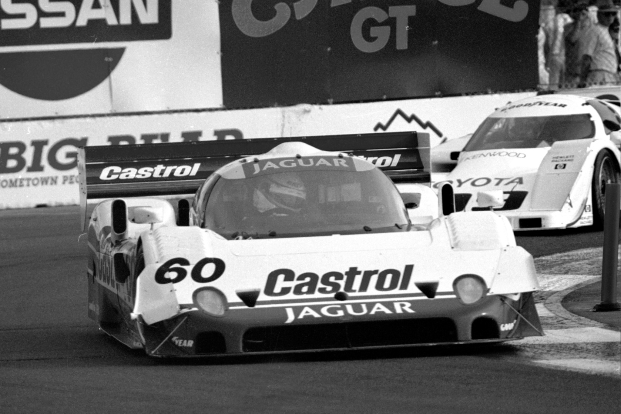 IMSA GTP cars at Del Mar in 1990.